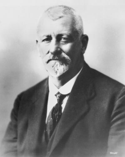 Thomas Welsby portrait